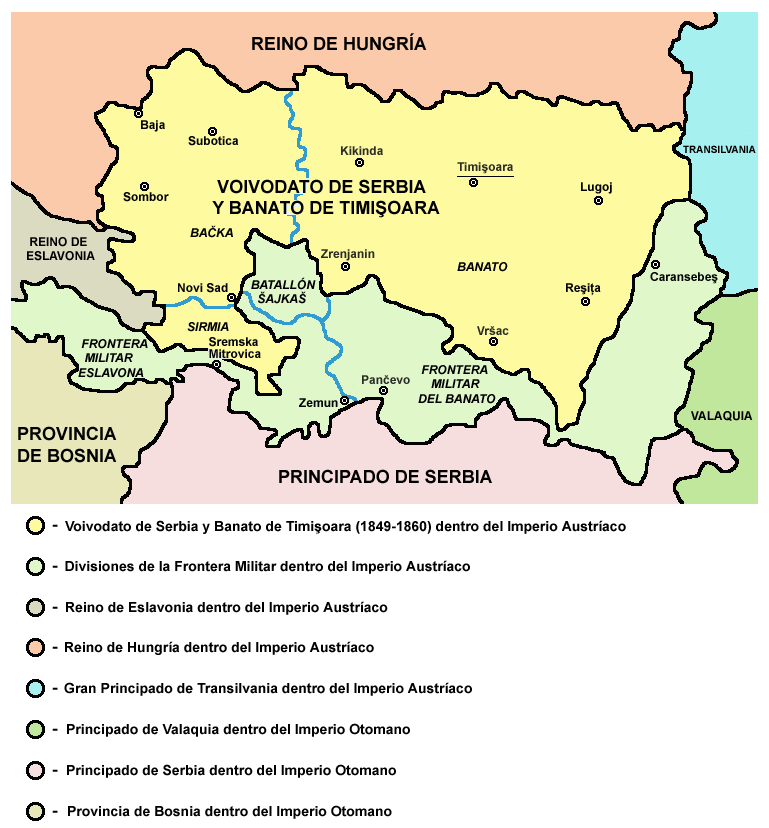 Voivodeship of Serbia and Banat of Temeschwar (1849-1860) - Spanish language version.